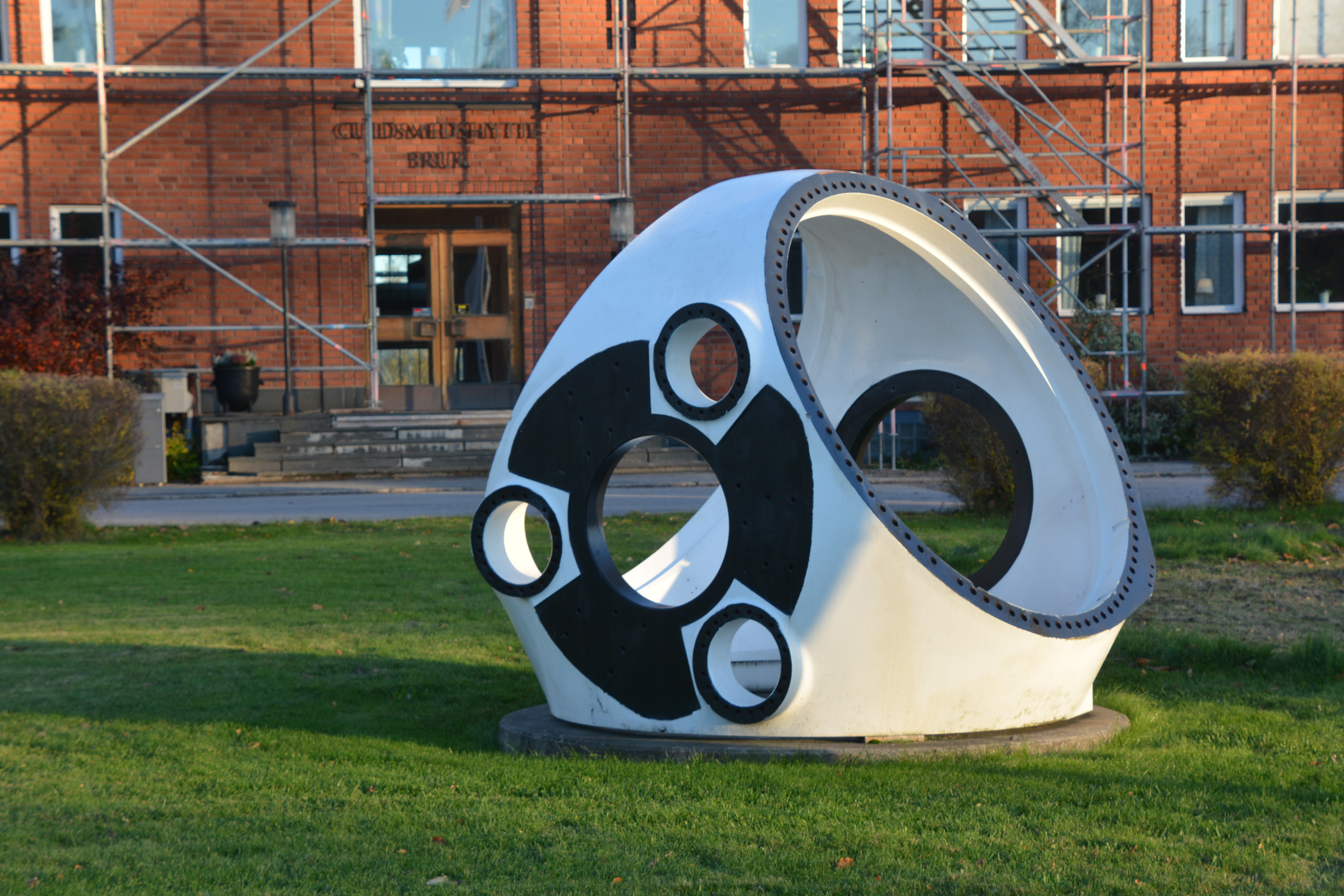 Vestas Casting outside main office building